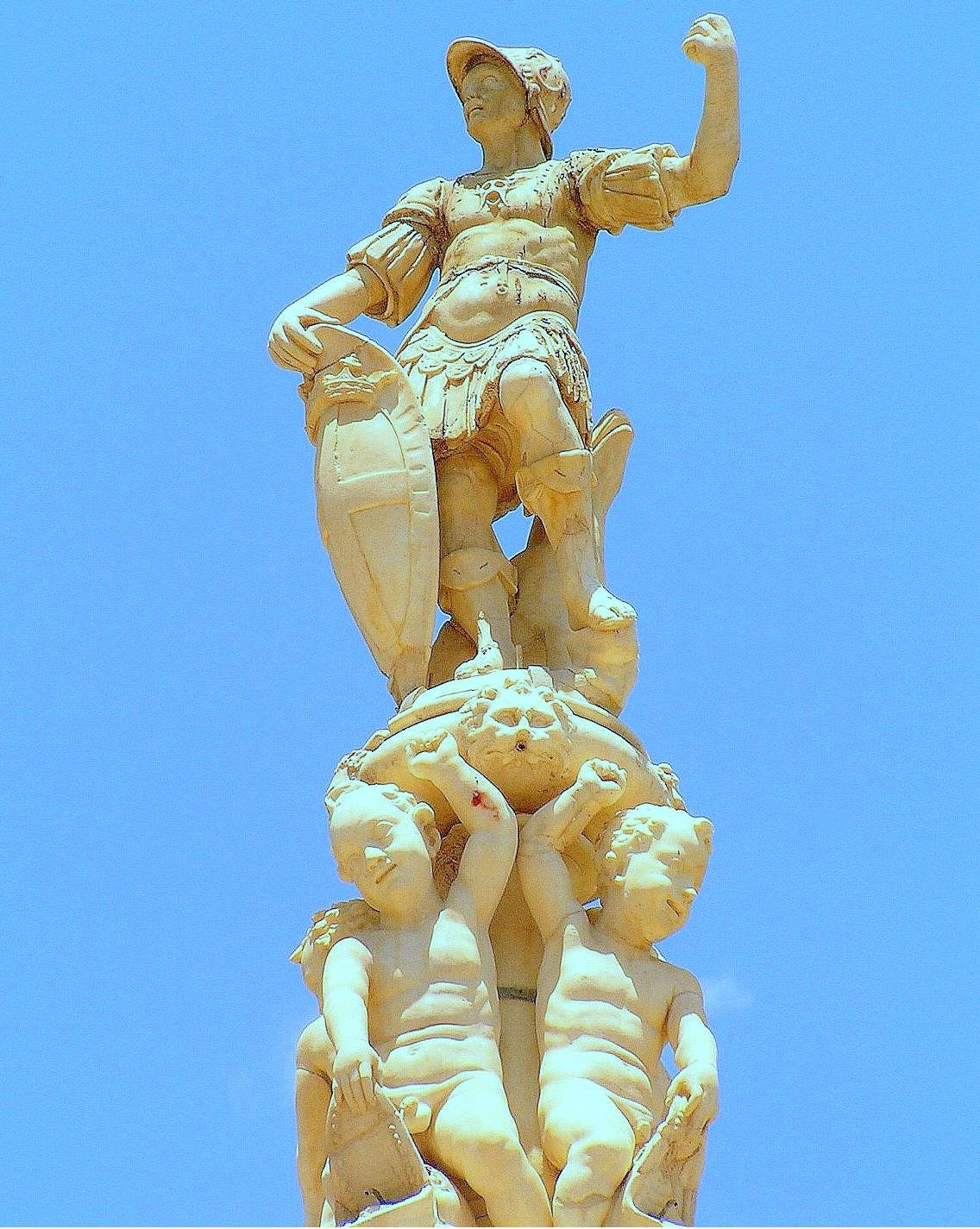 Fountain of Orion (1553) in Messina, Italy, by Giovanni Angelo Montorsoli.